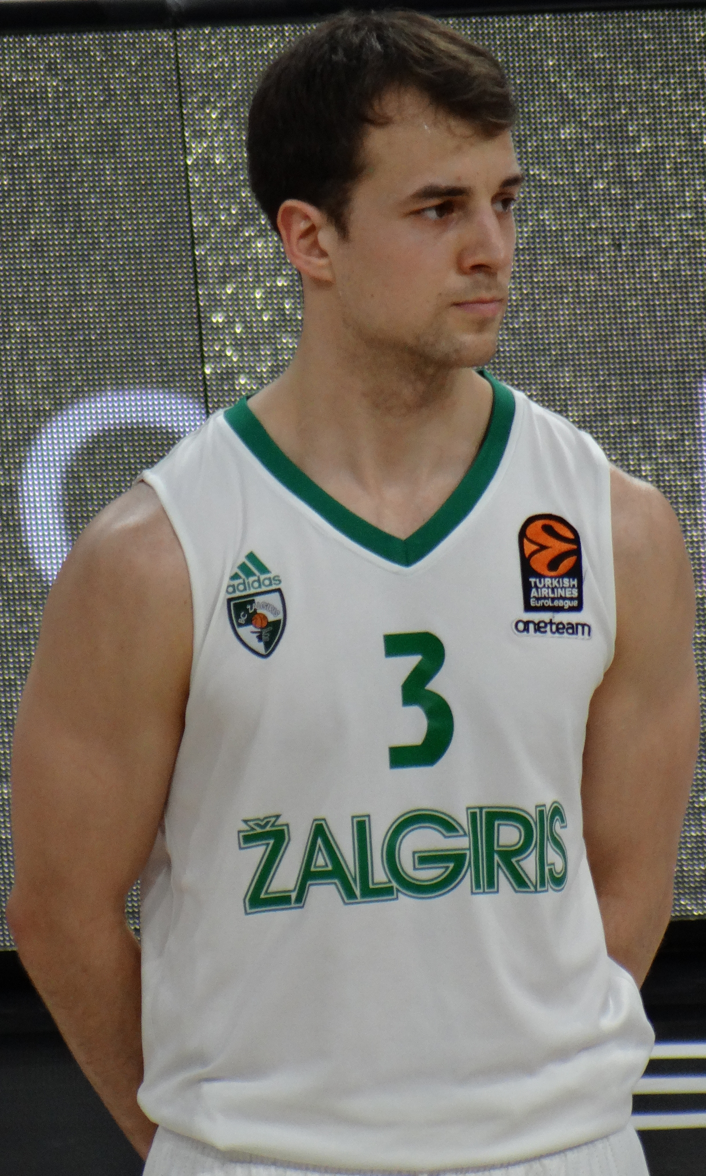 Kevin Pangos 3 BC Žalgiris EuroLeague 20180223